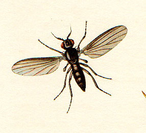 Opetia Detail of illustration from British Entomology: illustrations and descriptions of the genera of insects found in Great Britain and Ireland (1824–1840)